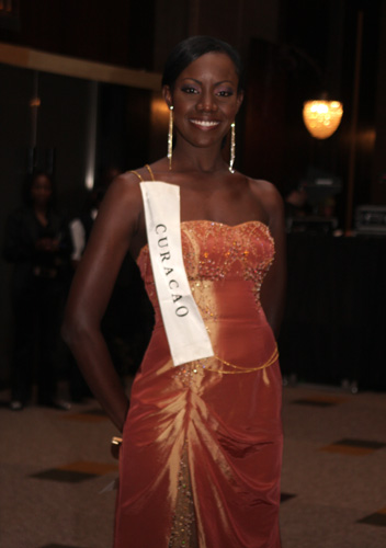 Miss Curacao 2008 Norayla Francisco during Miss World 08